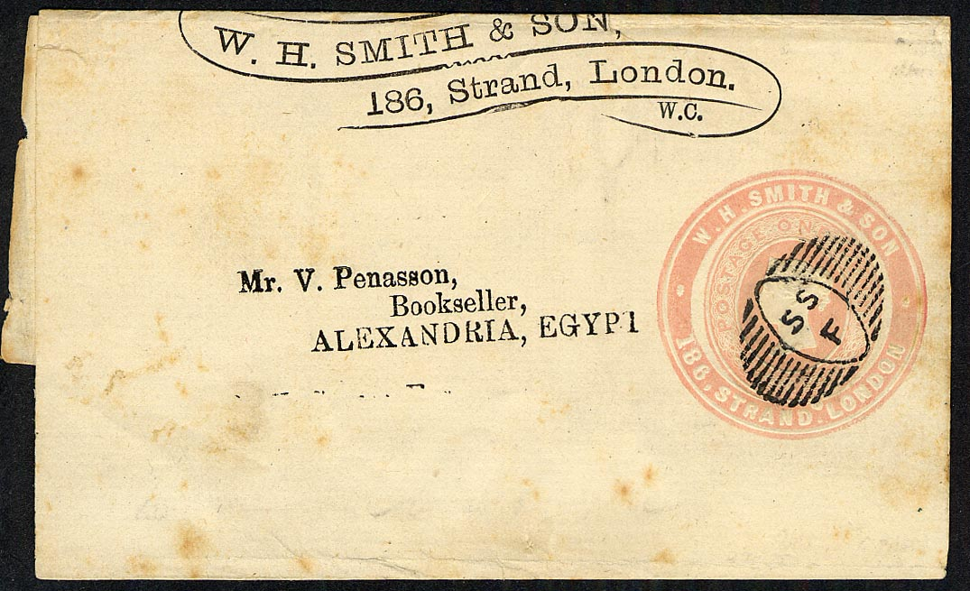 Stamped-to-order postal stationery wrapper with advertising ring of W H Smith encircling the 1d pink indicia, used from London to Egypt